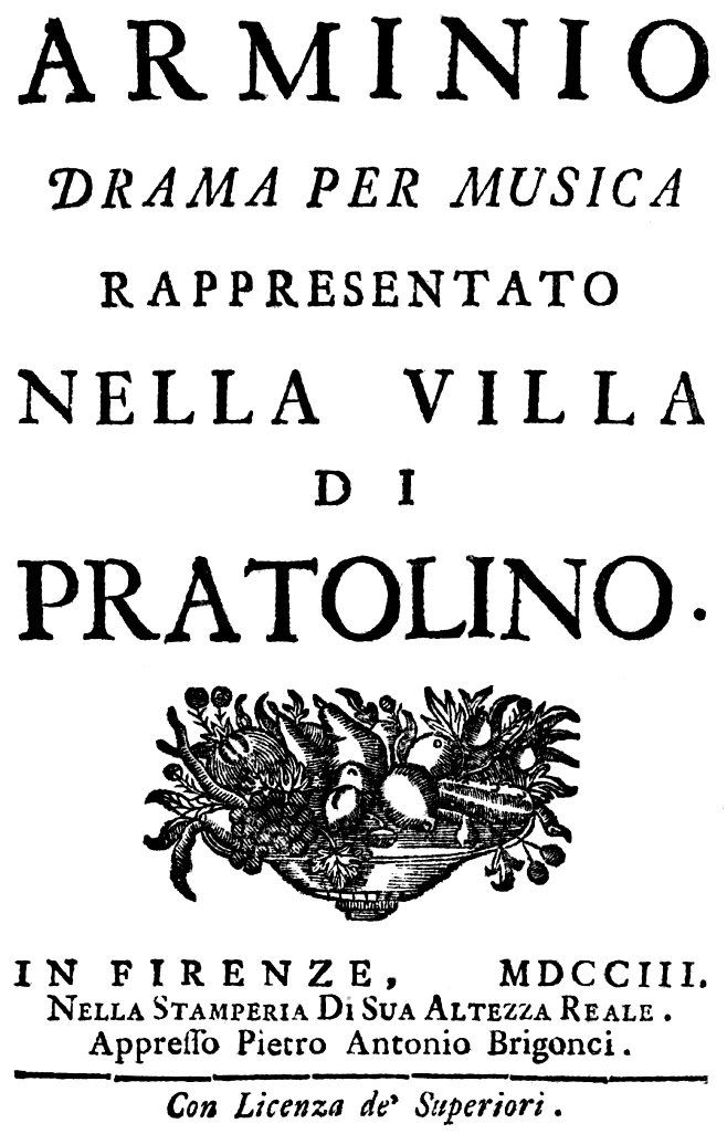 Alessandro Scarlatti - Arminio - title page of the libretto - Florence 1703